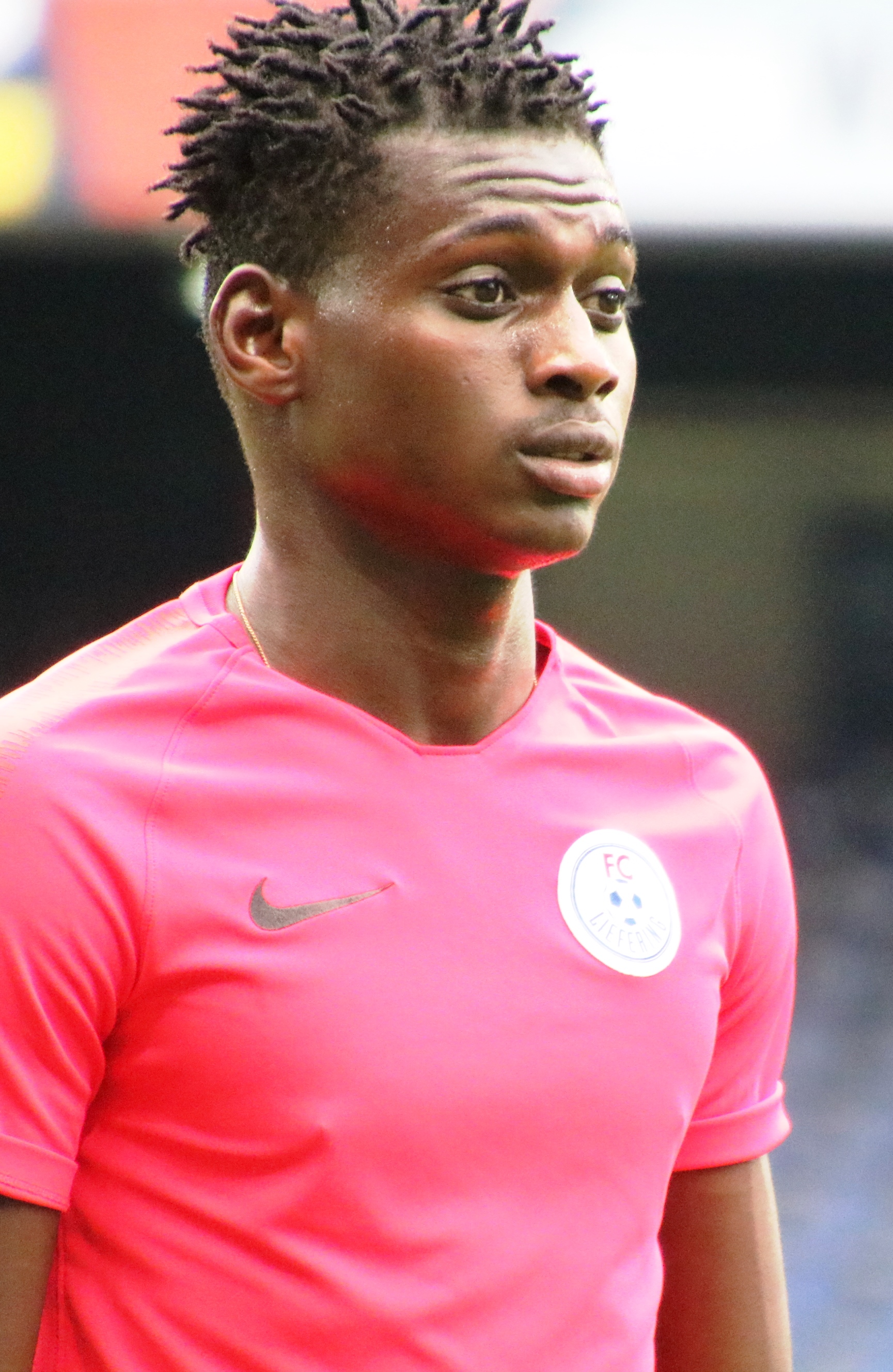 Austria 2nd league league match 5th round